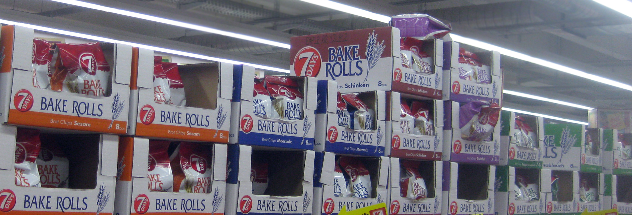 7days bakerolls ("Brotchips") as sold at Kaufland